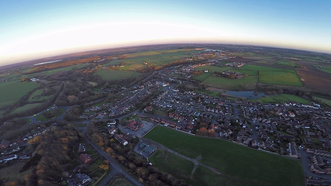 Taken from Quadcopter at 500ft, Feb 10 2016